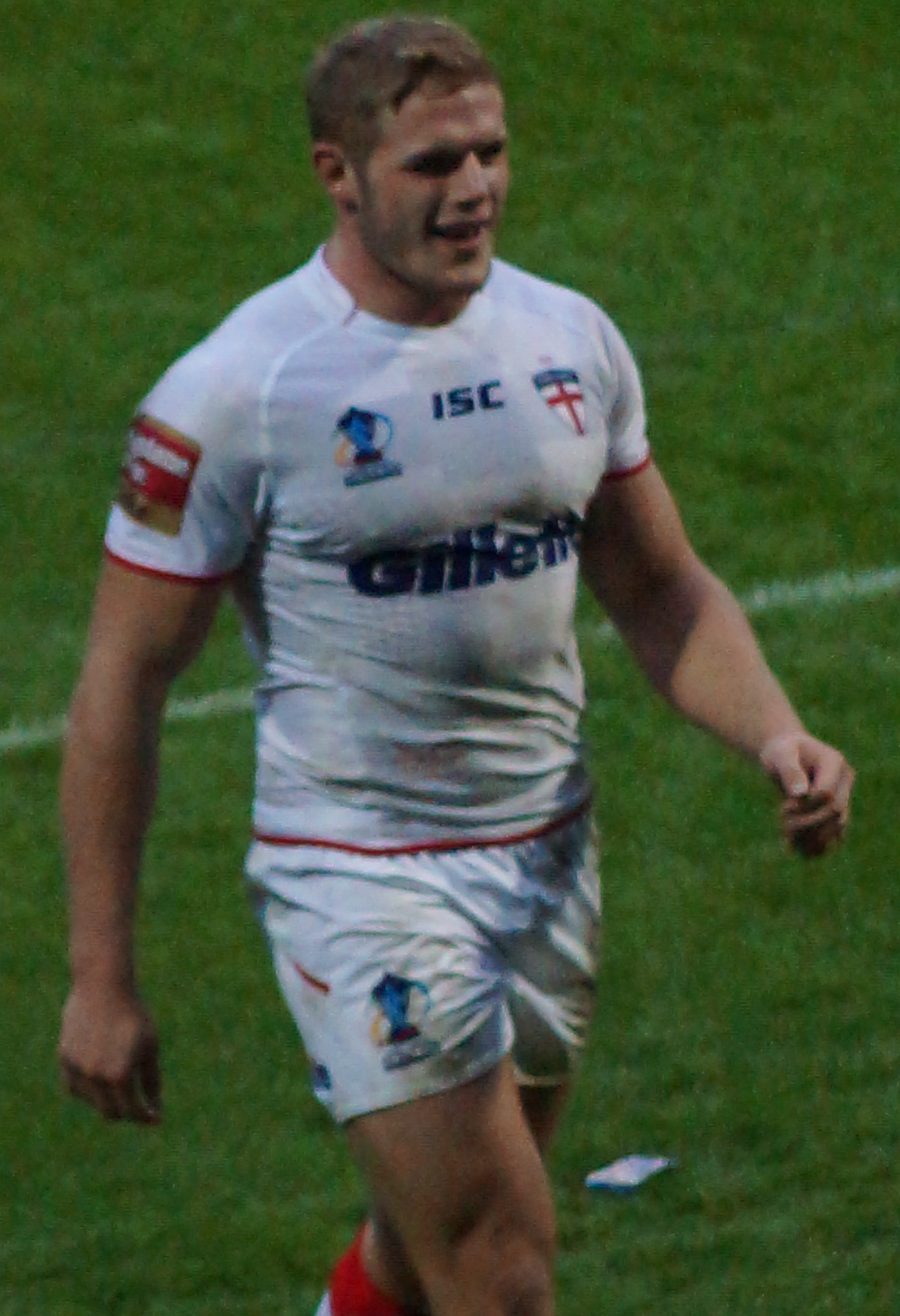 English Tom Burgess at 2013 Rugby League World Cup match between England and Ireland at John Smith's Stadium, Huddersfield.